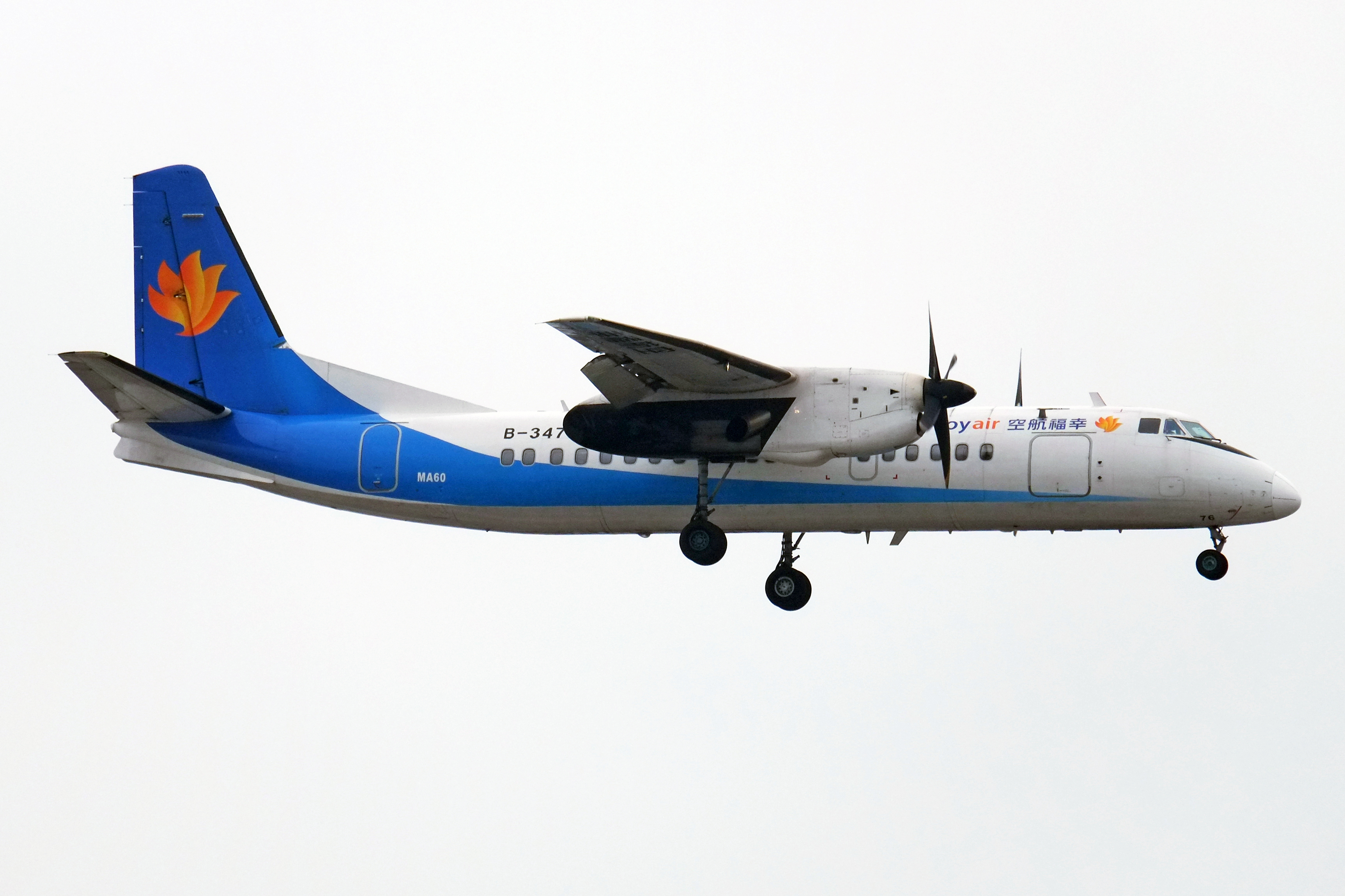 JR1549 TXN-HFE-CGO